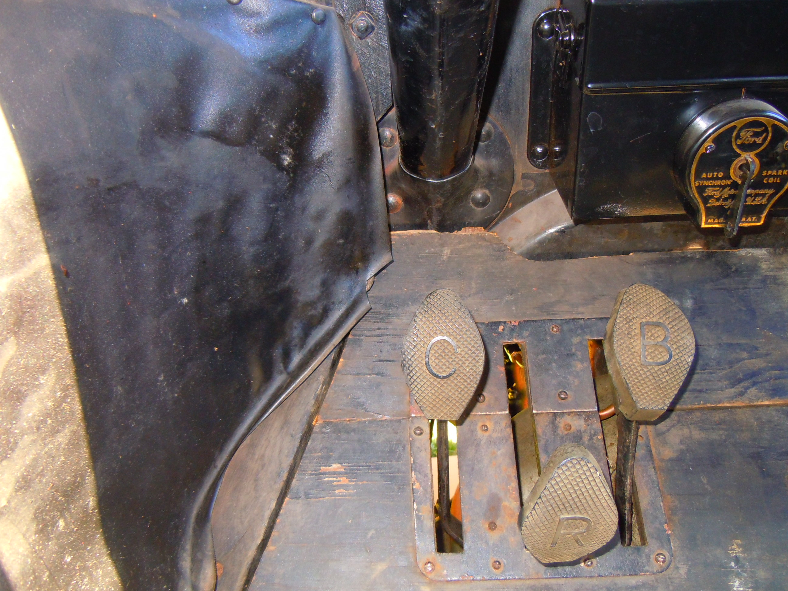 These are the three-pedal controls of a Model T ford. The left one is the clutch, the middle one is reverse, and the one on the right is the brake.